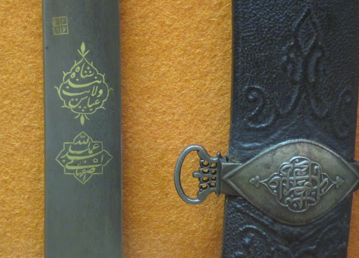 Shah abbas I sword